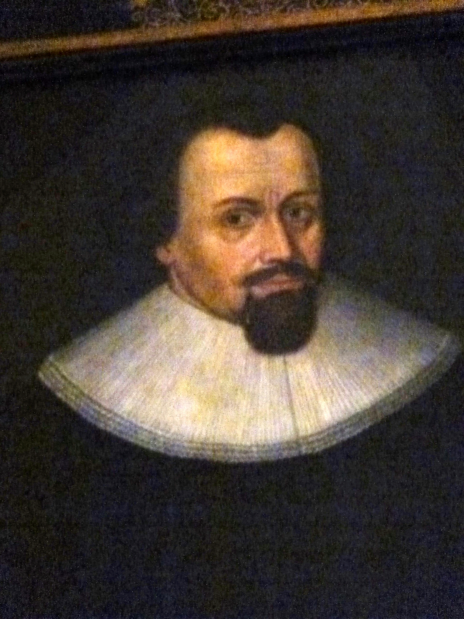 Josua Stegmann (1588-1632), German Univ.-Professor of Protest. Theology, oil-painting on canvas by Berent Worltemate 1634